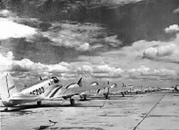 George Army Airfield Illinois Beechcraft AT-10 Wichita twin-engine Trainers